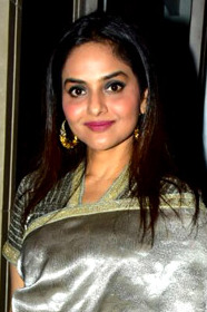 Madhoo graces HELLO! Hall of Fame 2018, Mar 11, 2018